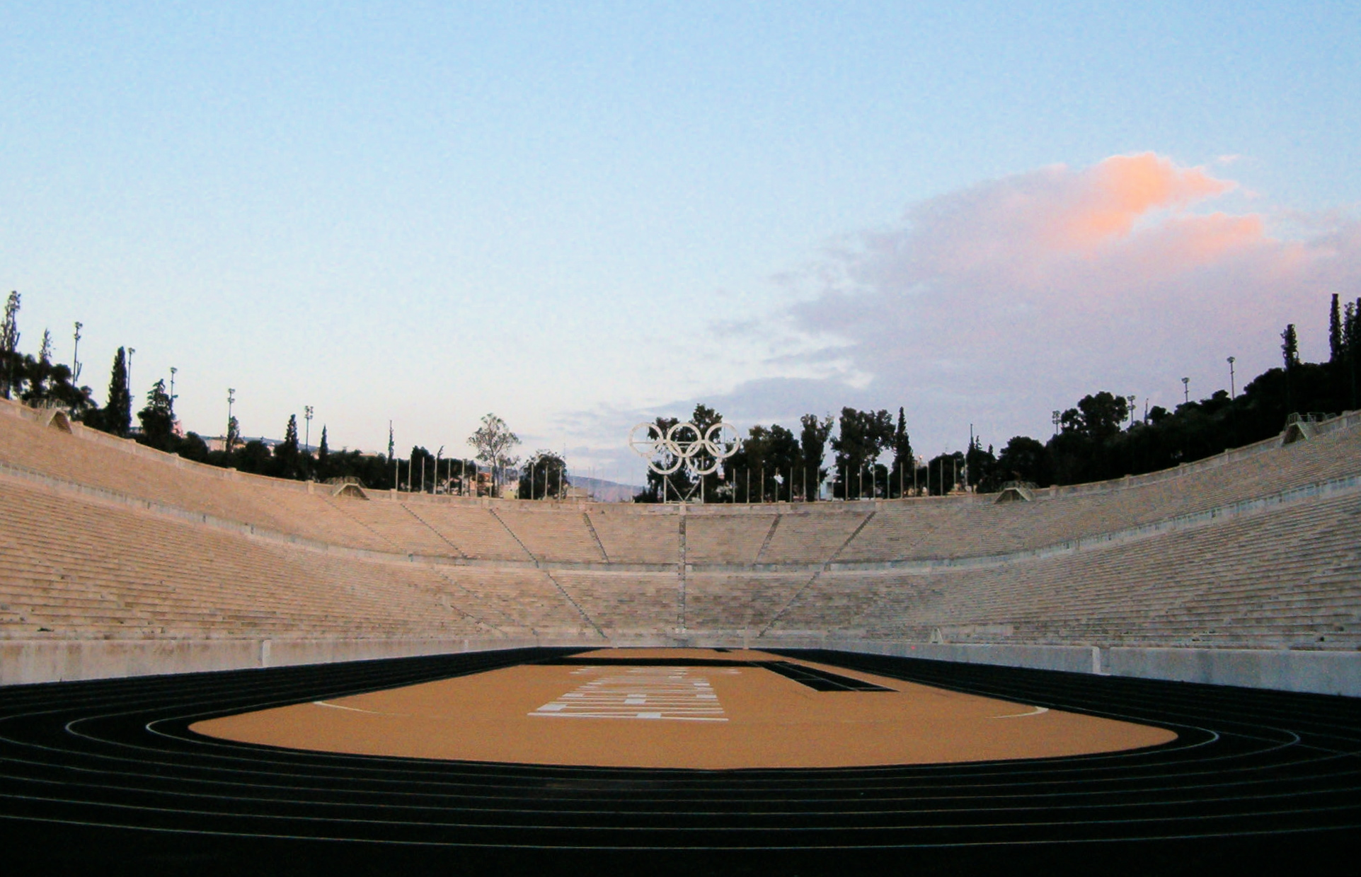 Panathenaic Stadium of Athens, Greece - photo taken by Marcok of wikipedia on March 16, 2005